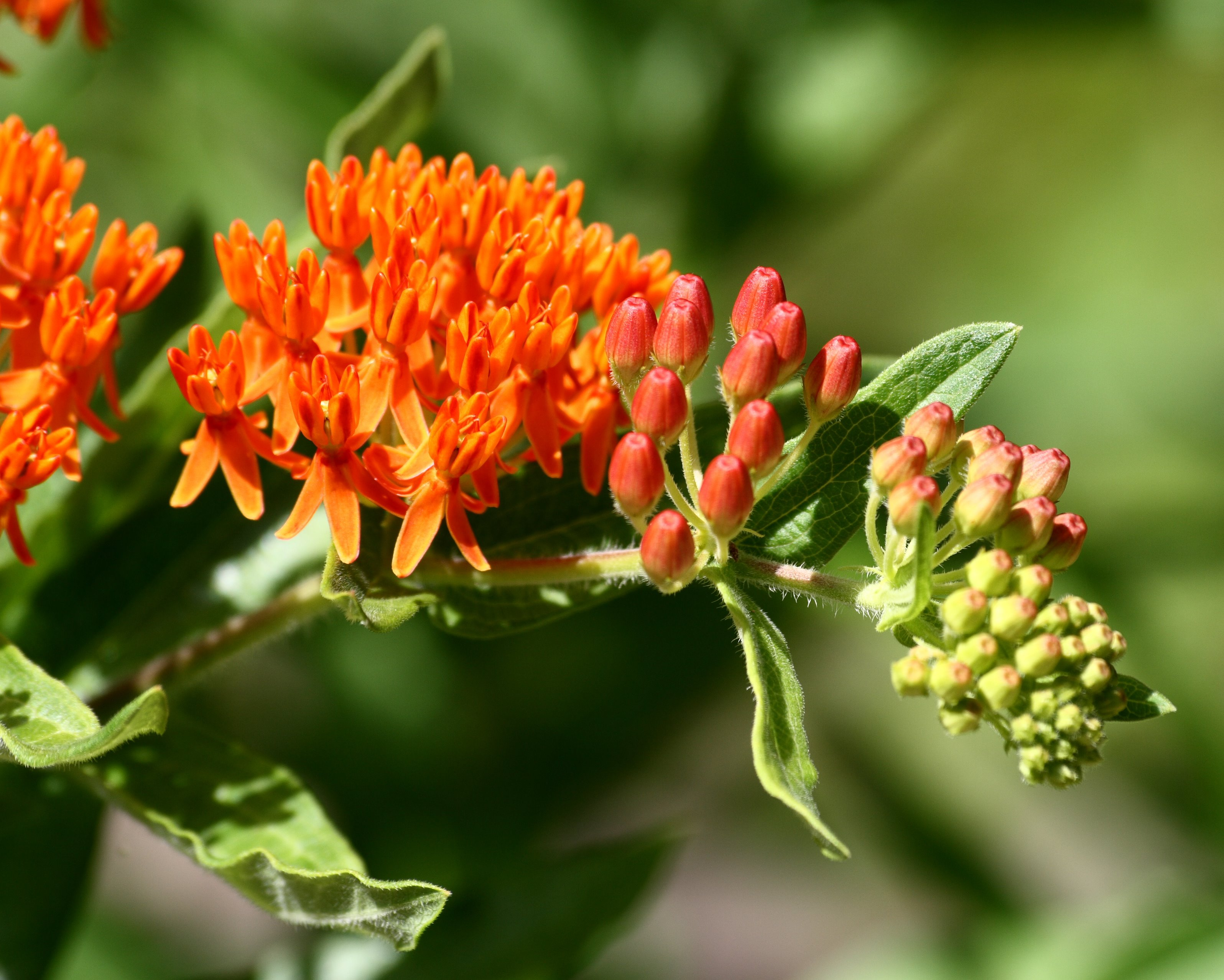 Asclepias tuberosa (Butterfly Weed) in Farmington, Connecticut